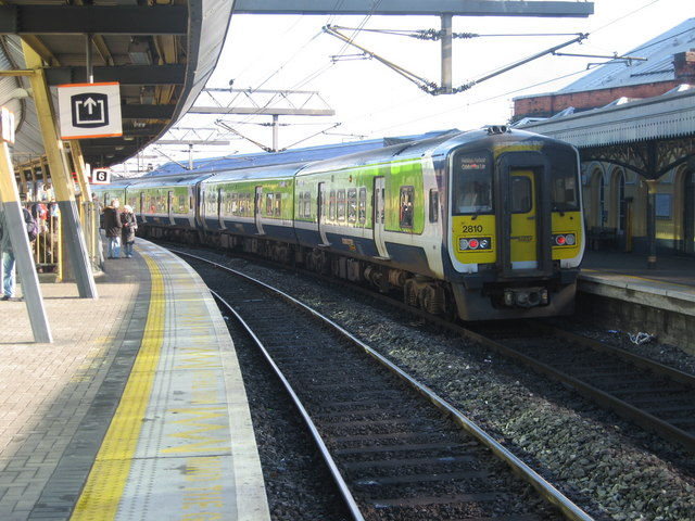 IÉ 2800 Class diesel multiple unit 2810 waits at platform 5 at Dublin Connolly railway station with a service for Rosslare Europort